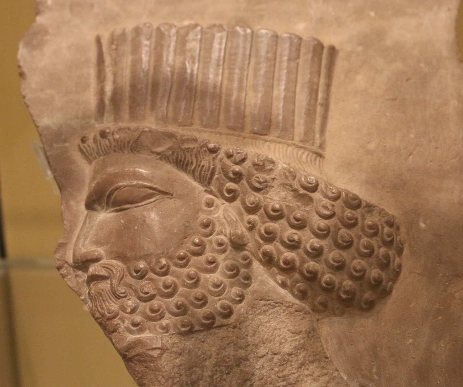 Relief sculpture with Persian Imperial Guardsman (fragment). Limestone, carved. Centimetres: 19 (height), 15.9 (width), 3.6 (depth). 5th century BC. Iron Age; Achaemenid Era. Area of Origin: Persepolis, Persia (Iran). -- Ontario Royal Museum, Toronto, Canada, June 2014. Photo: Persian Dutch Network.